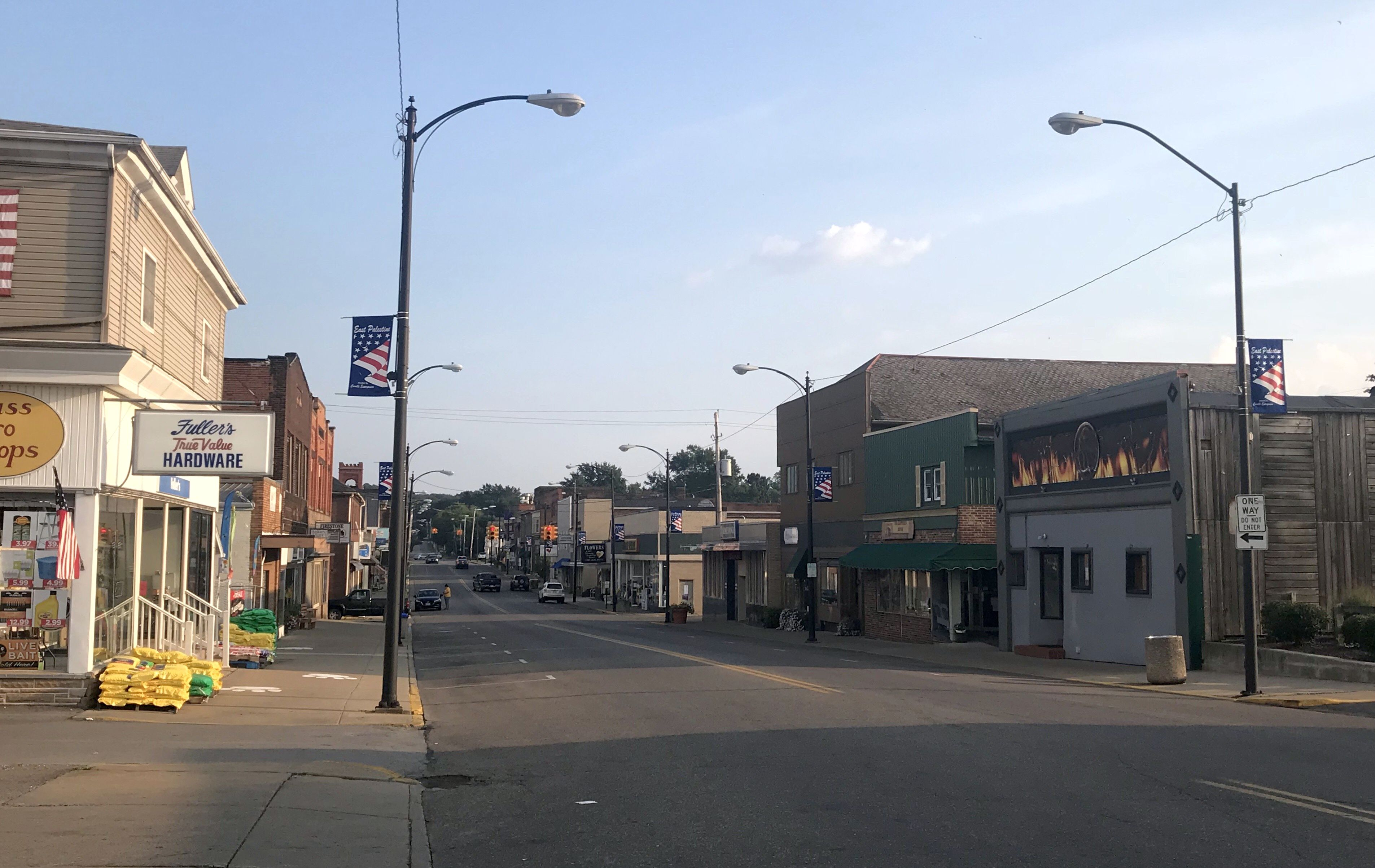 Downtown East Palestine, OH